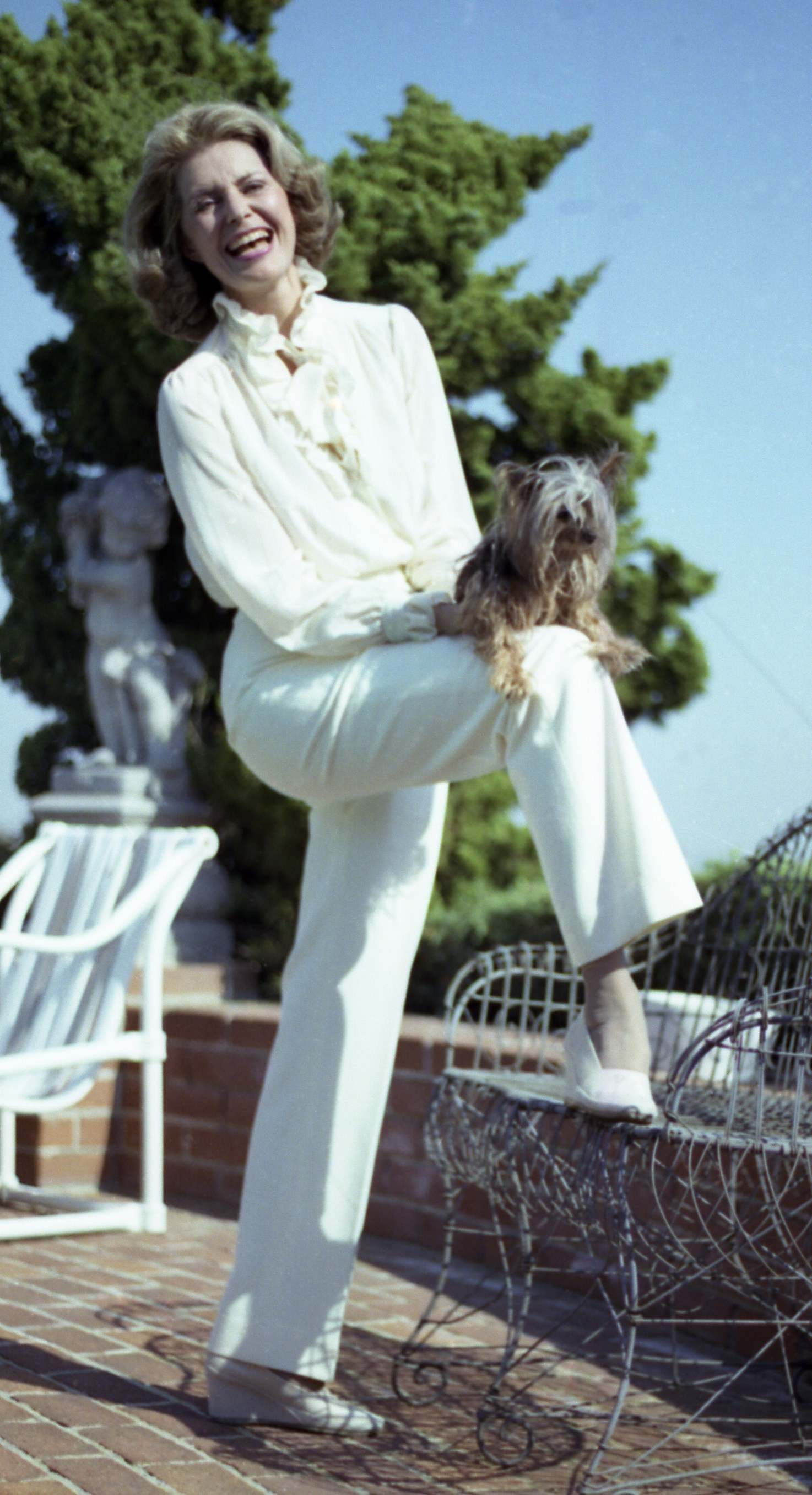 Cyd Charisse in Los Angeles on her terrace.